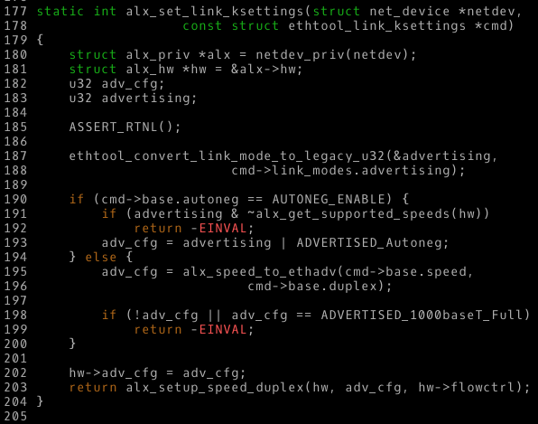 Snippet of source code from the alx module in the Linux kernel.